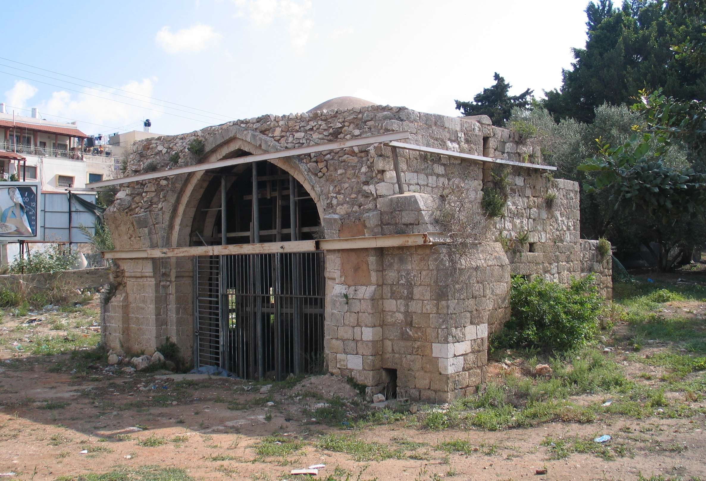 Abul-Awn mosque, Jaljulia, Israel.